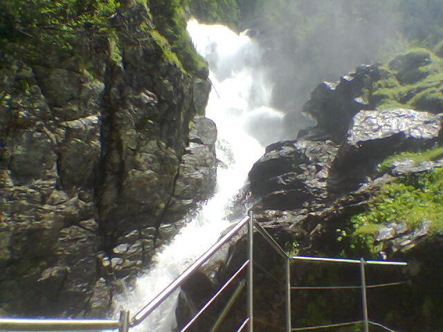 Riesachfall